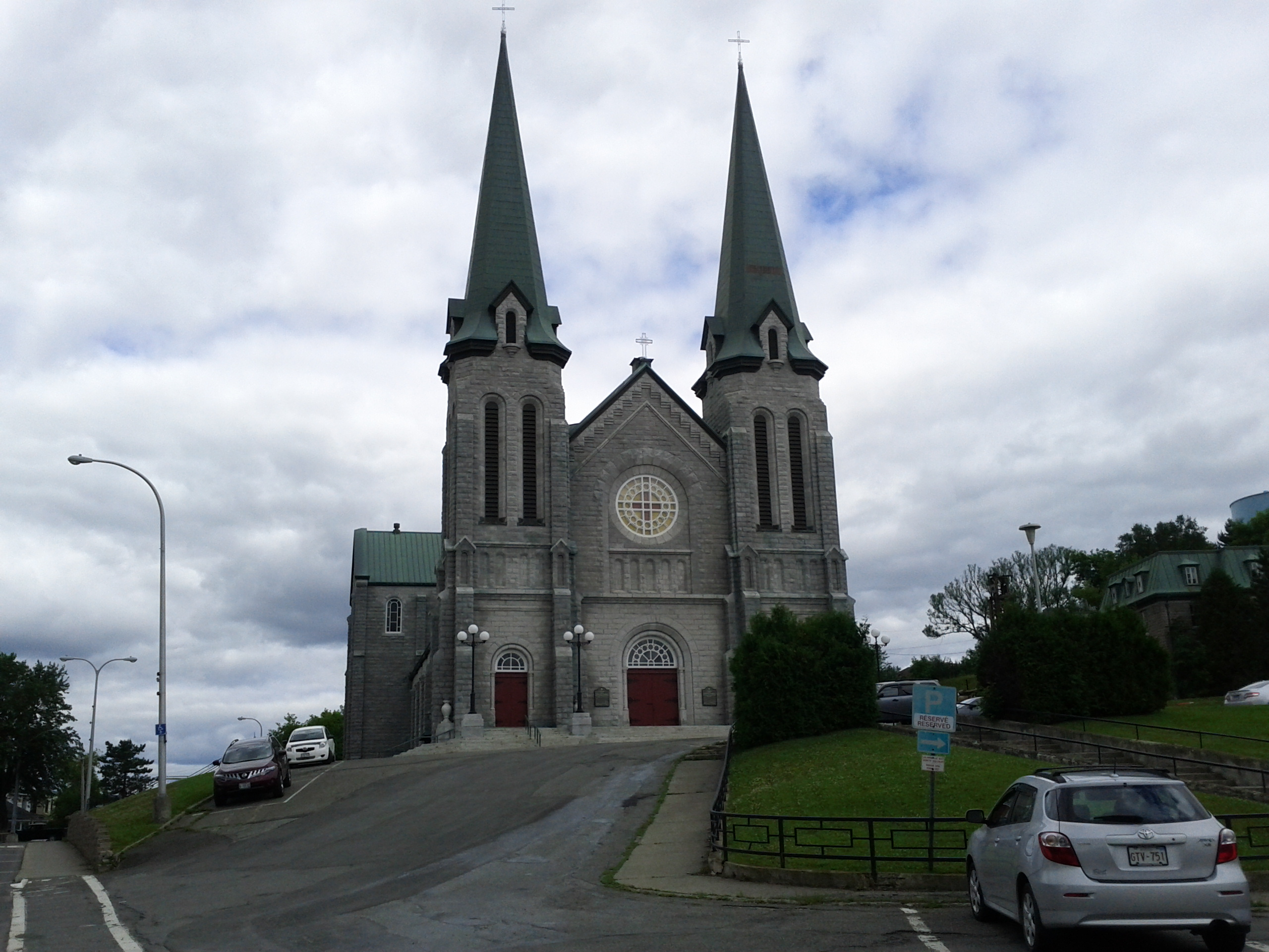 Edmundston's Cathedral of the Immaculate Conception, erected in 1880.